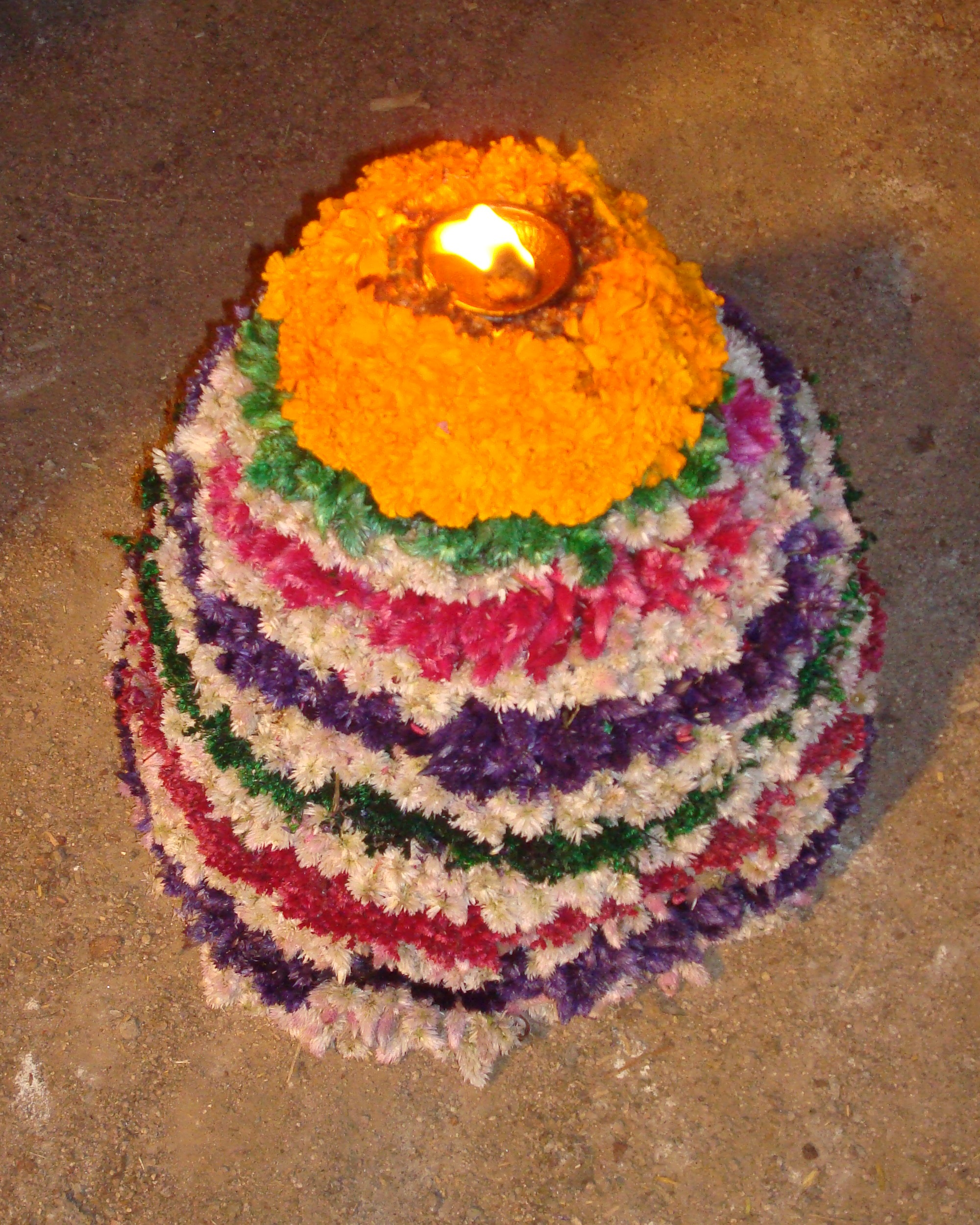 A picture of Batukamma, celebrated in Telangana region of Andhra Pradesh.